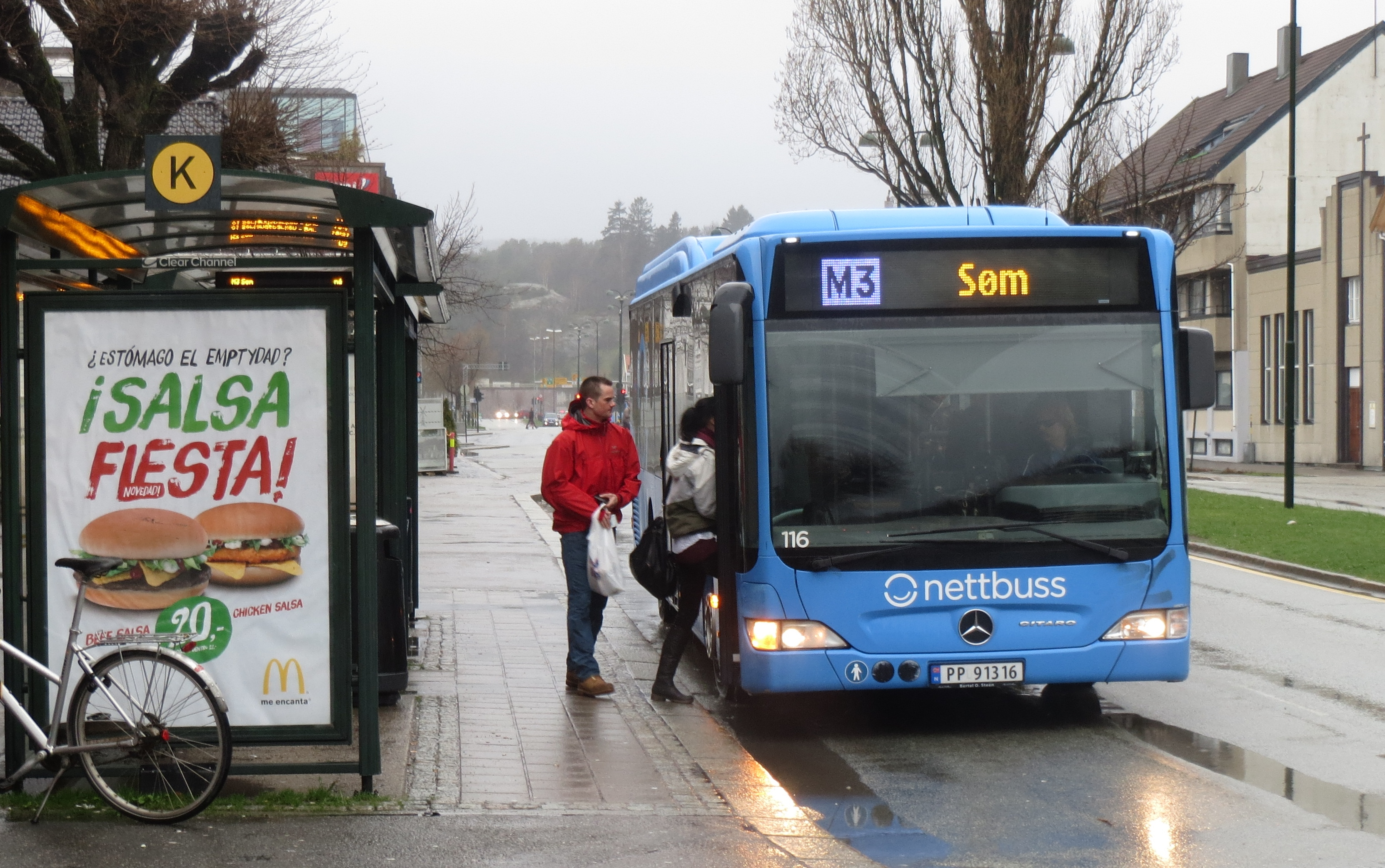 A bus stop in Kristiansand, NorwayNorsk bokmål: Busstopp i Festningsgata i Kristiansand